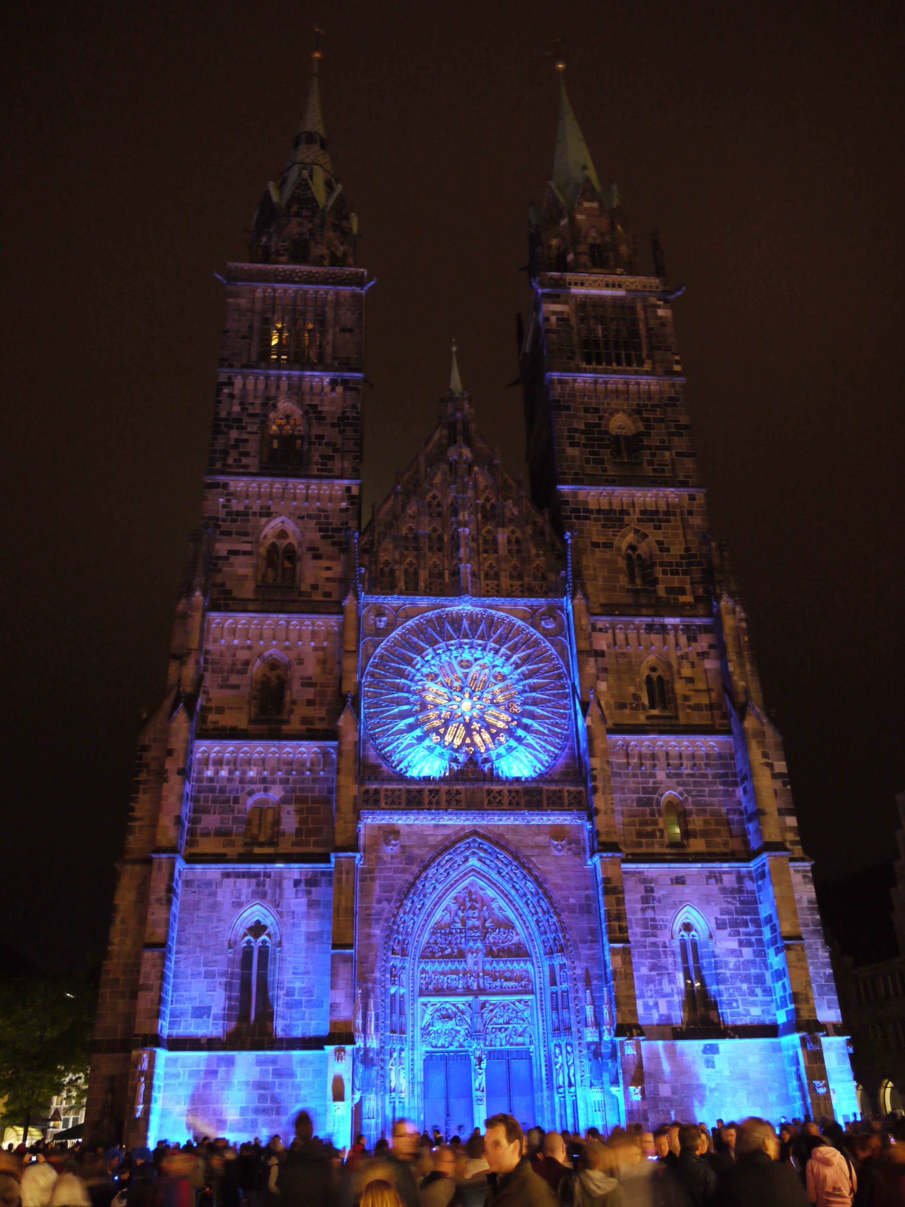 Blaue Nacht ("Night in Blue") in Nuremberg, Germany in May 2010: St. Lorenz church